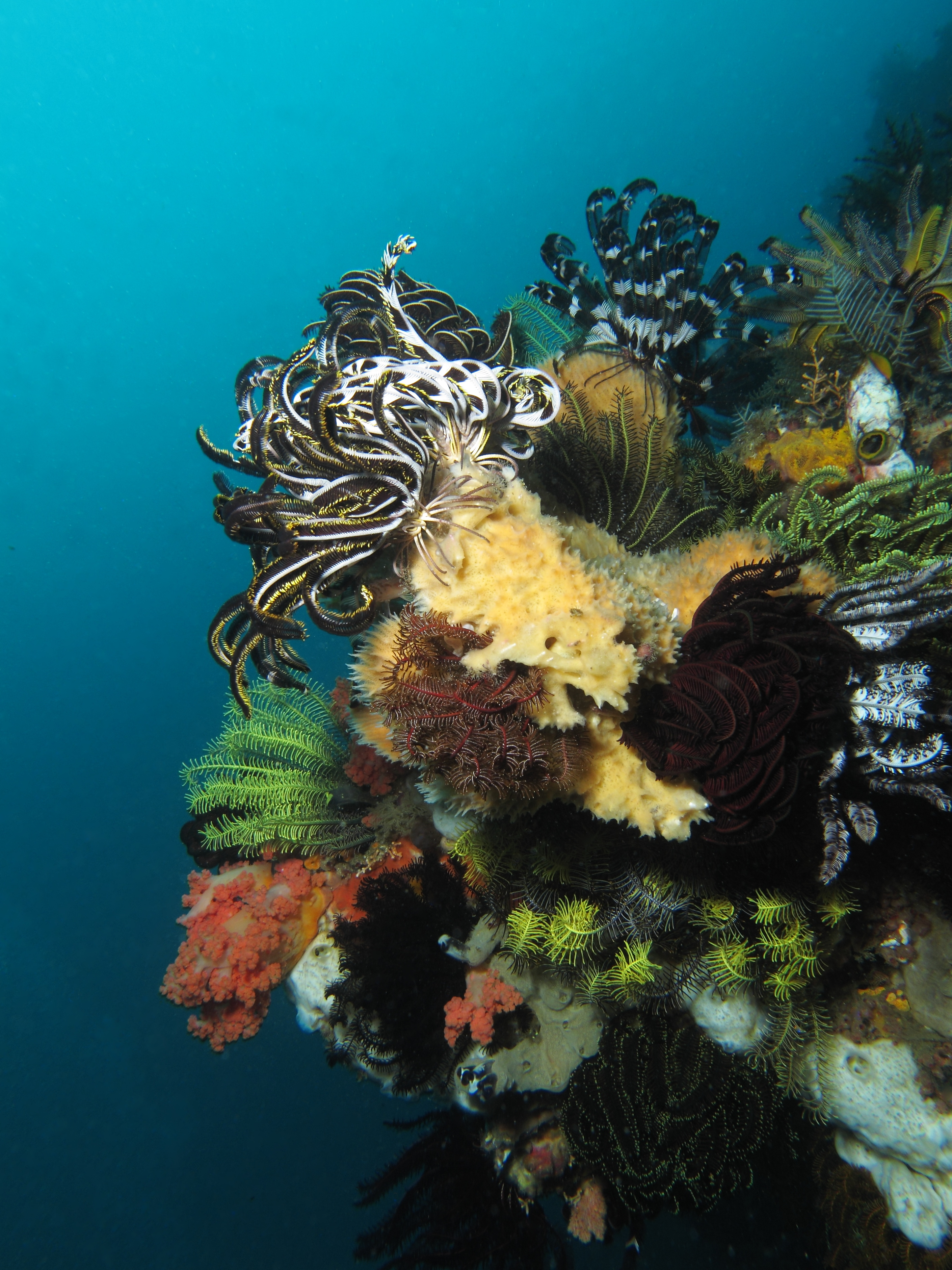 Multiple crinoids occupying the reef of Nusa Kode Island (near Komodo Island, Indonesia)